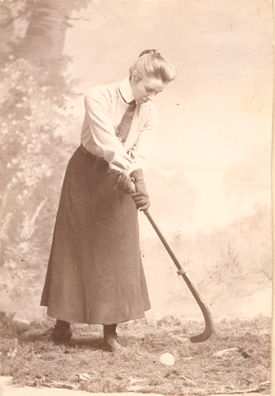 Constance Applebee demonstrating field hockey positions